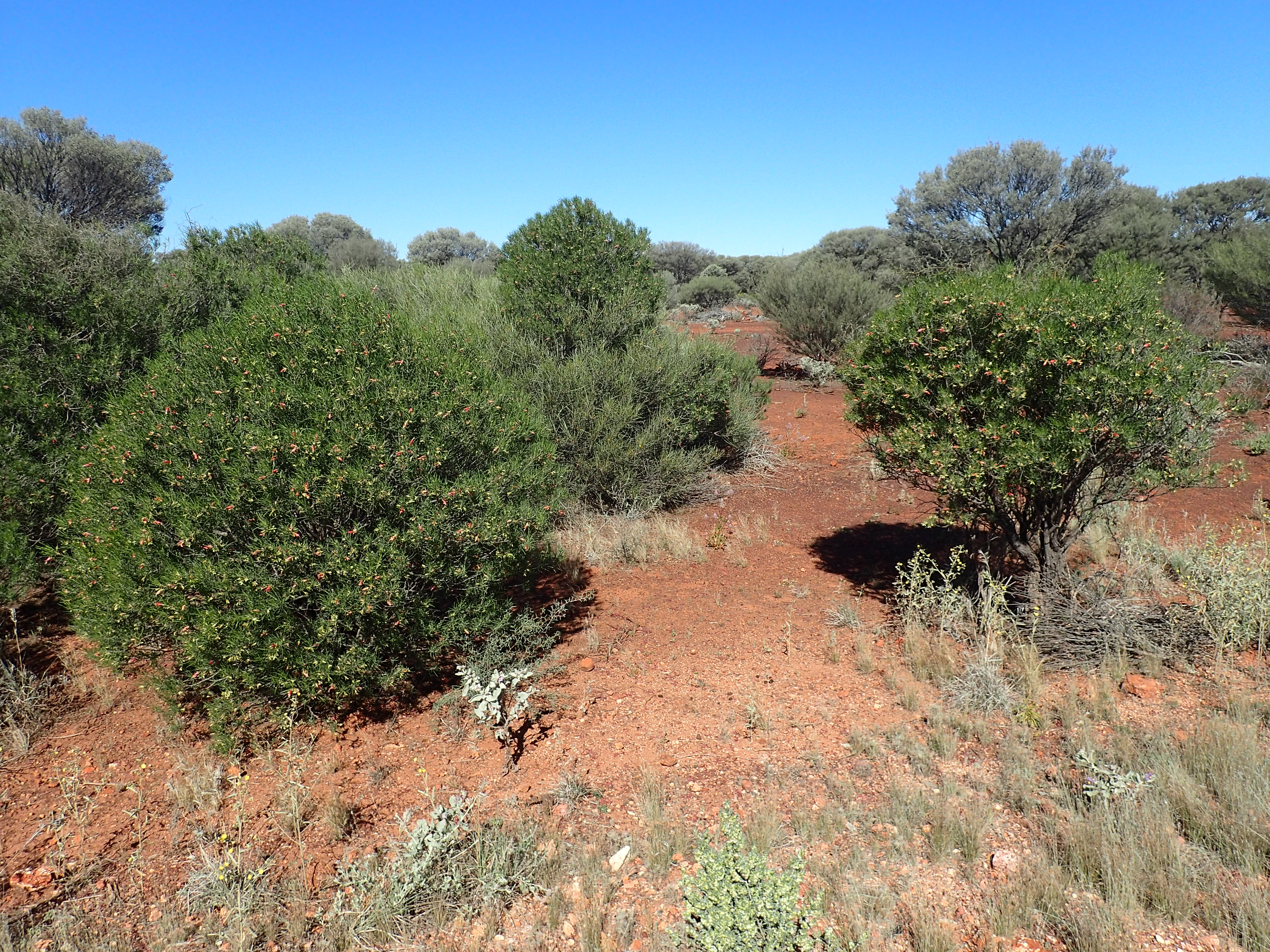 Eremophila oldfieldii angustifolia growing 75km east of Leonora